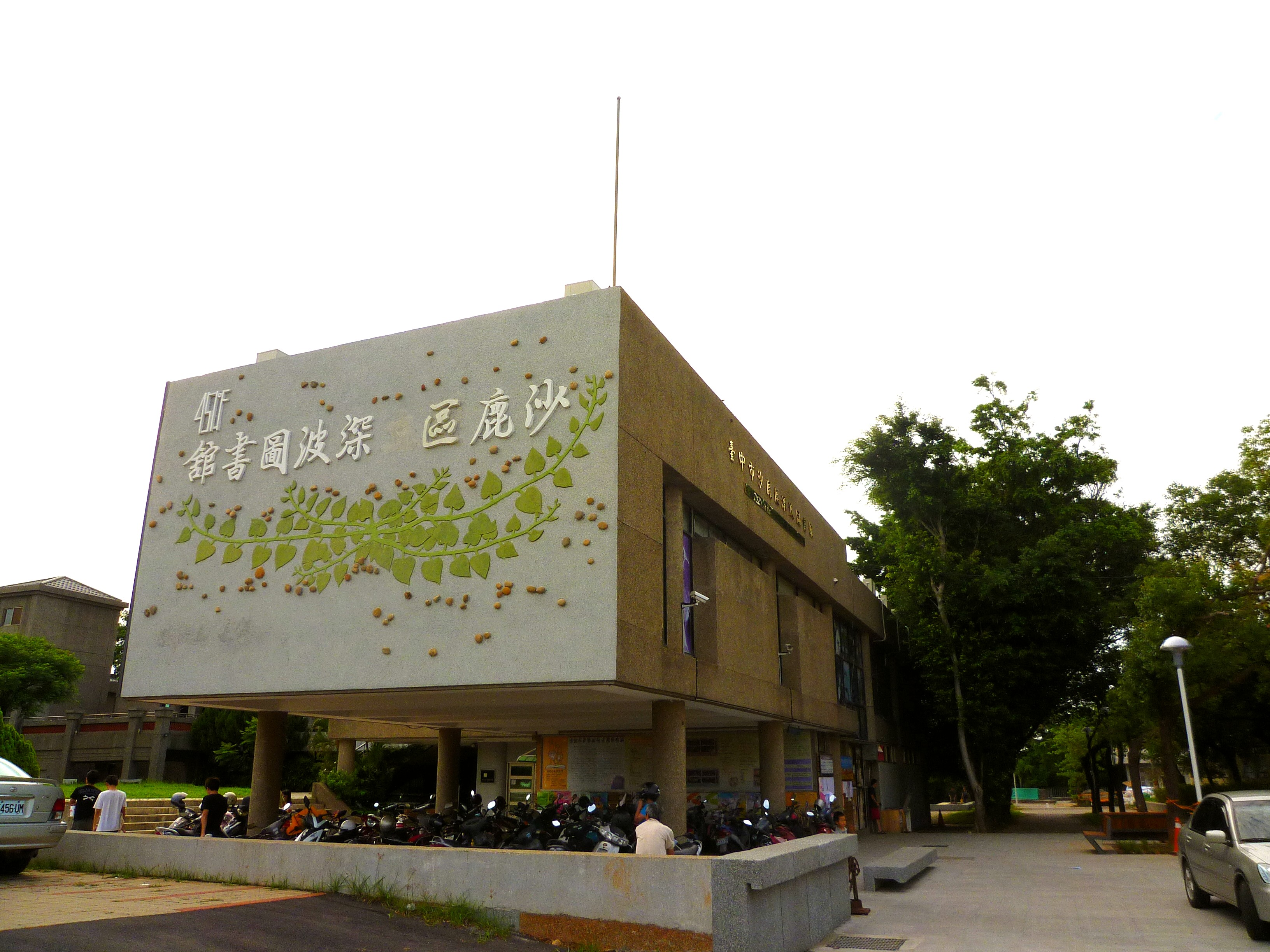 Shalu_library